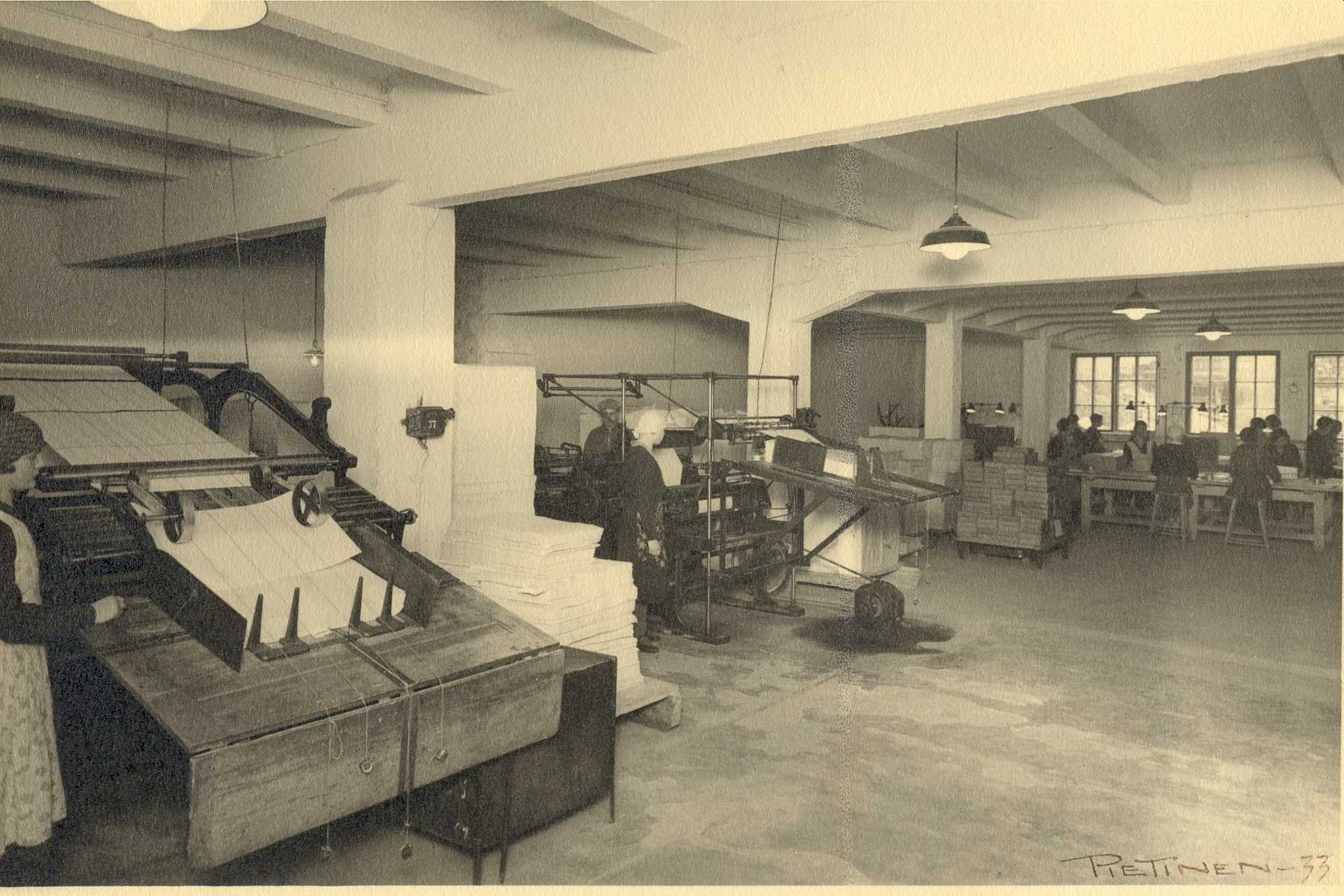 Hovilanhaara paper mill in Jämsänkoski, Finland in 1933